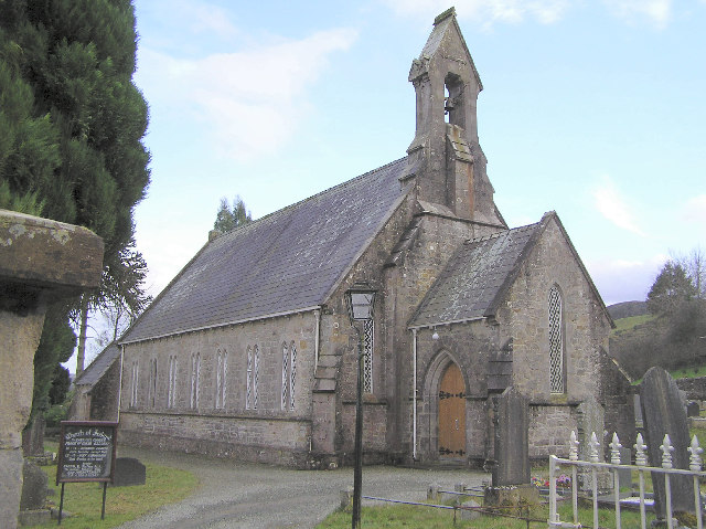 St Patrick's Church of Ireland, Gortin. It is in the Parish of Lower Badoney and is located at the west end of the village.